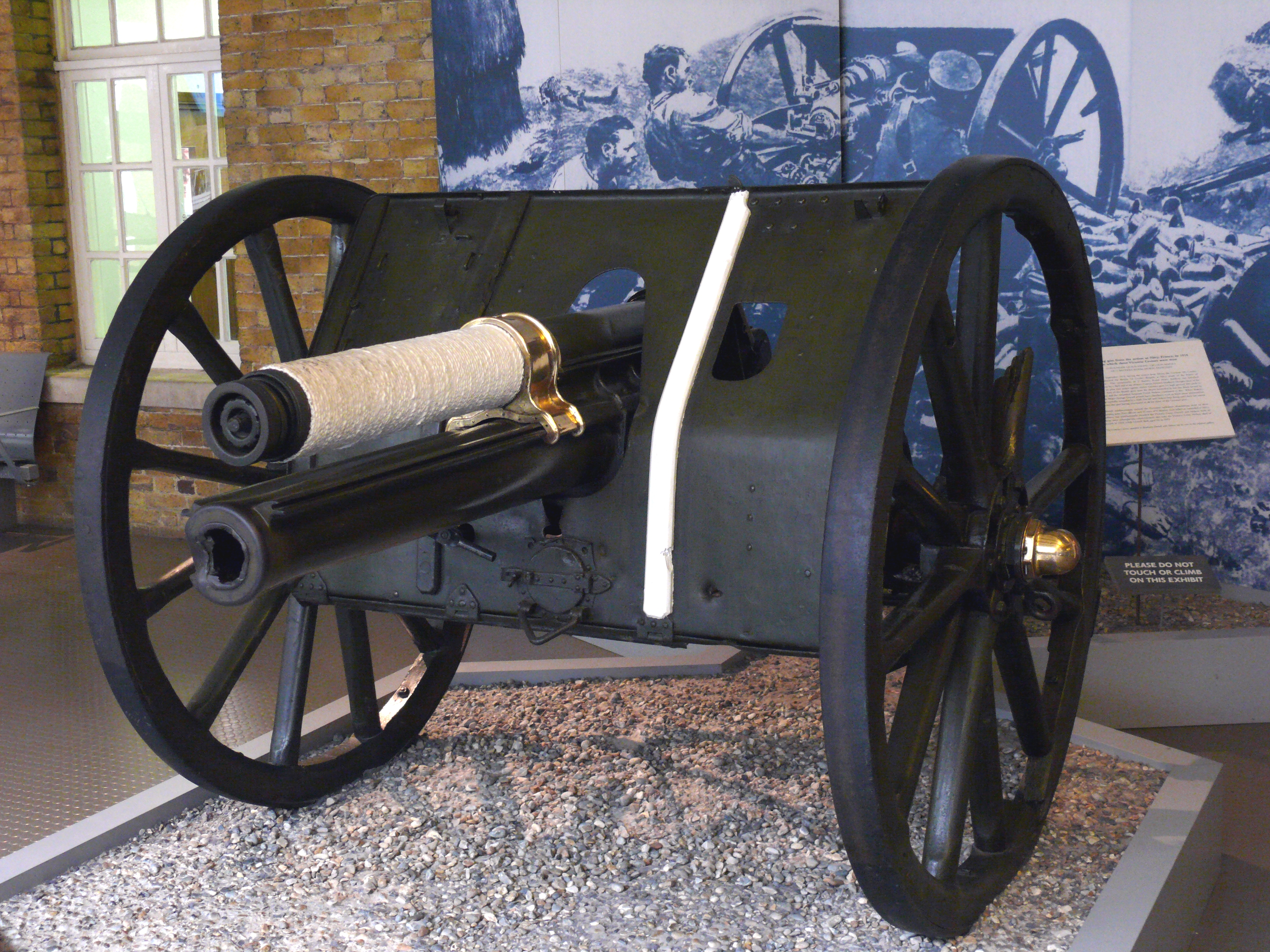 The QF 13 pounder field gun of L Battery, Royal Horse Artillery, used in the VC action at Néry, France, 1 September 1914. NOTE : This version has brightness and contrast artificially increased to highlight detail, as the original is somewhat dark. This gun is on display in the Victoria Cross and George Cross Gallery, Imperial War Museum London.